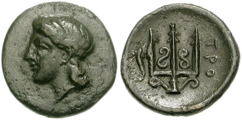 Troizen 325-300 BC. Æ Chalkous (14mm, 1.82 g). Head of Athena left, wearing tainia / Ornate trident head; to left, dolphin upward, ΤΡΟ(ΙΖΗΝΙΩΝ) "of Troizenians"